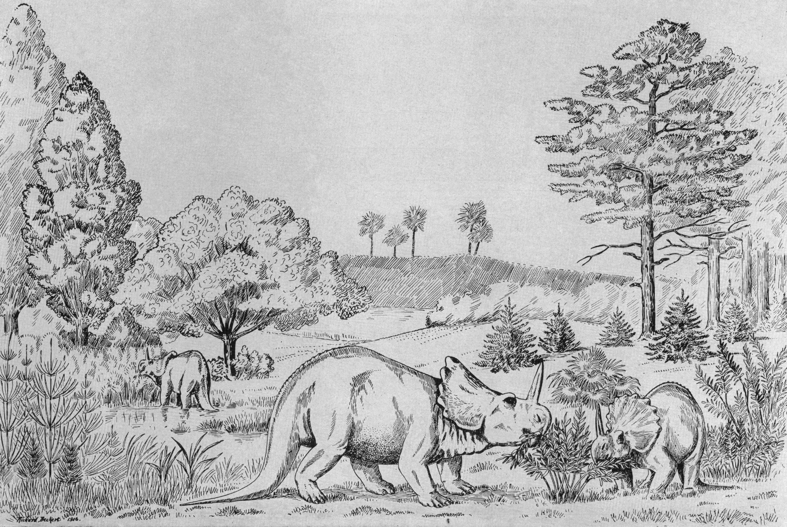 Life restoration of Centrosaurus (formerly Monoclonius nasicornis).